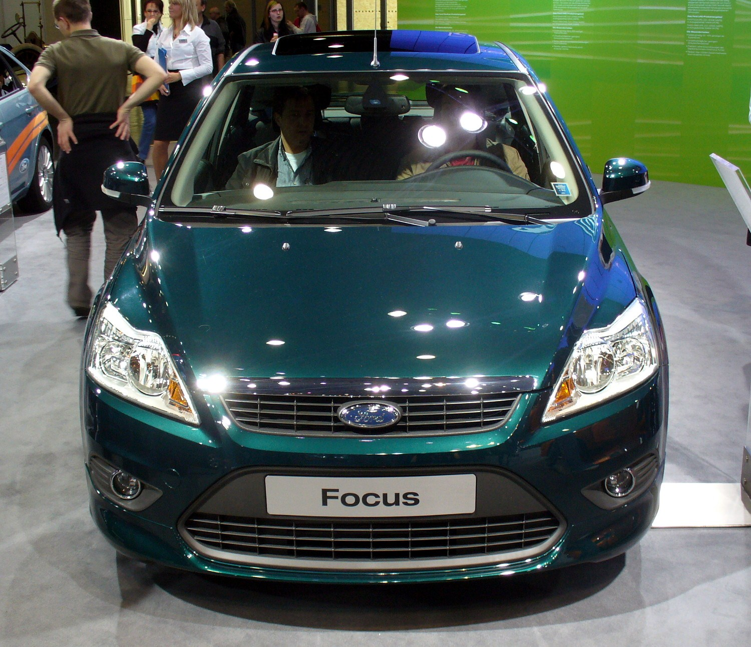 Ford Focus Facelift Econetic